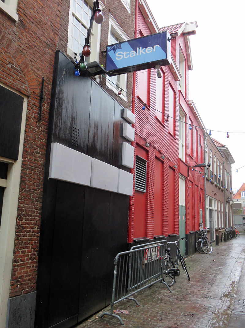 Disco Club Stalker at Kromme Elleboogsteeg 20 in Haarlem, opened in 1983.